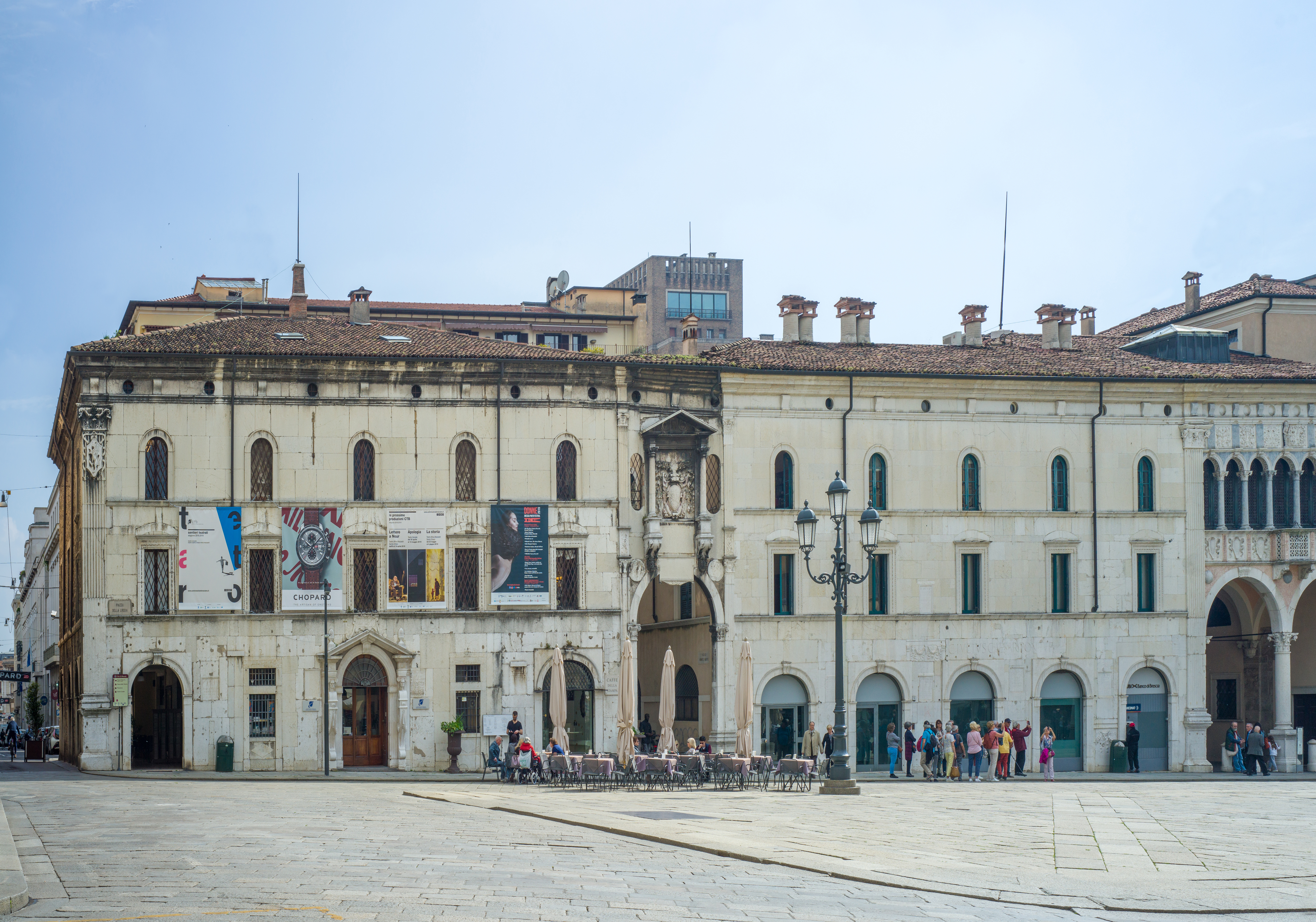 Facade of Monte di Pietà nuovo palace on Piazza della Loggia square in Brescia.